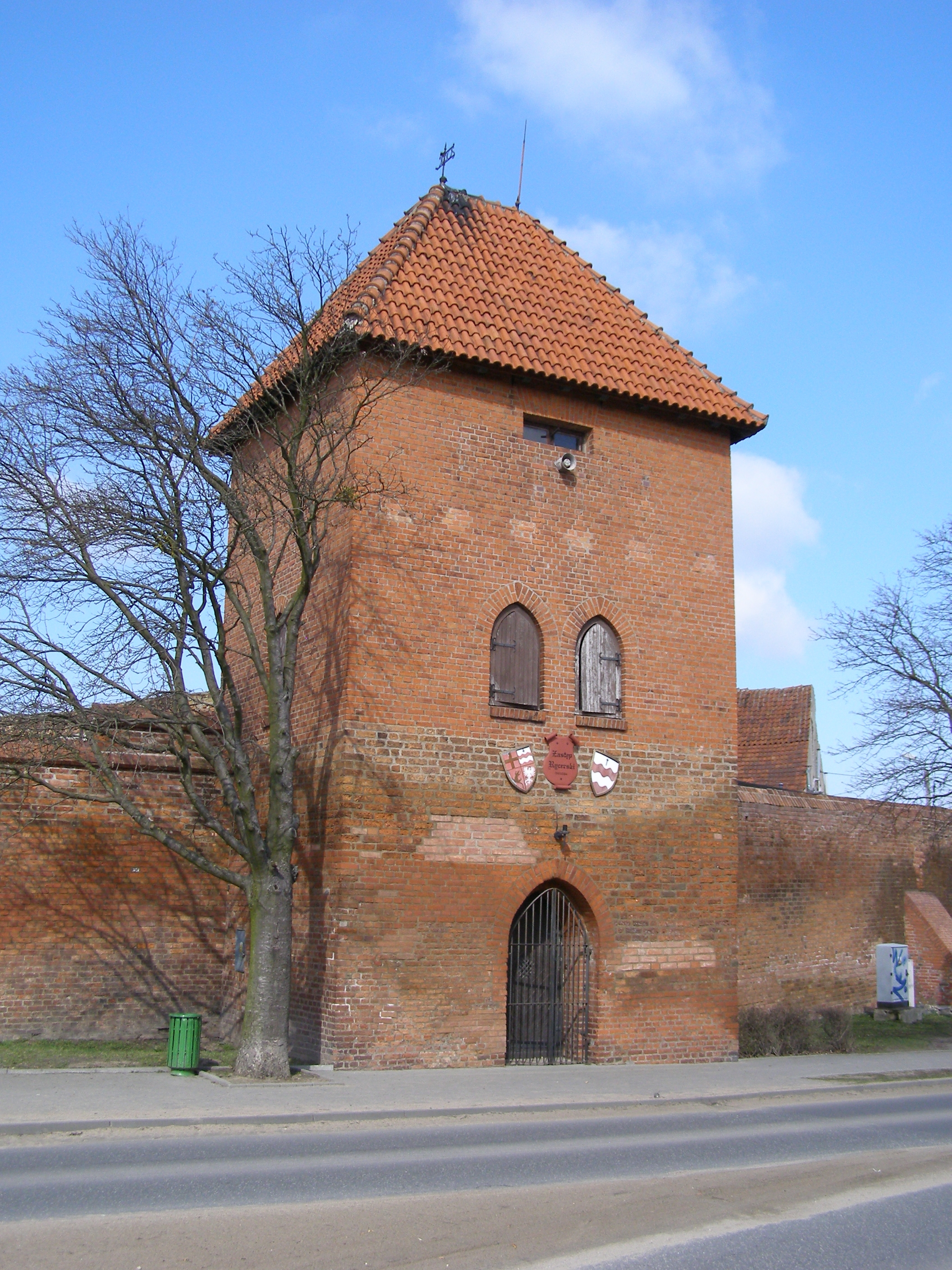 Chełmno - Maiden Tower